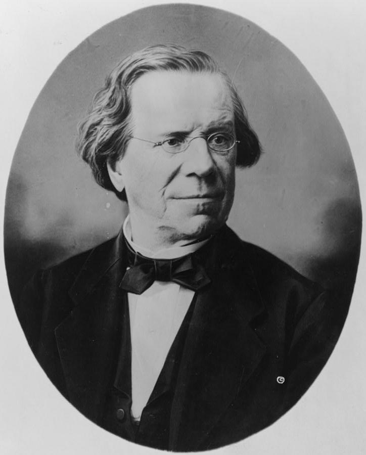 Robert McClelland, c. 1916.